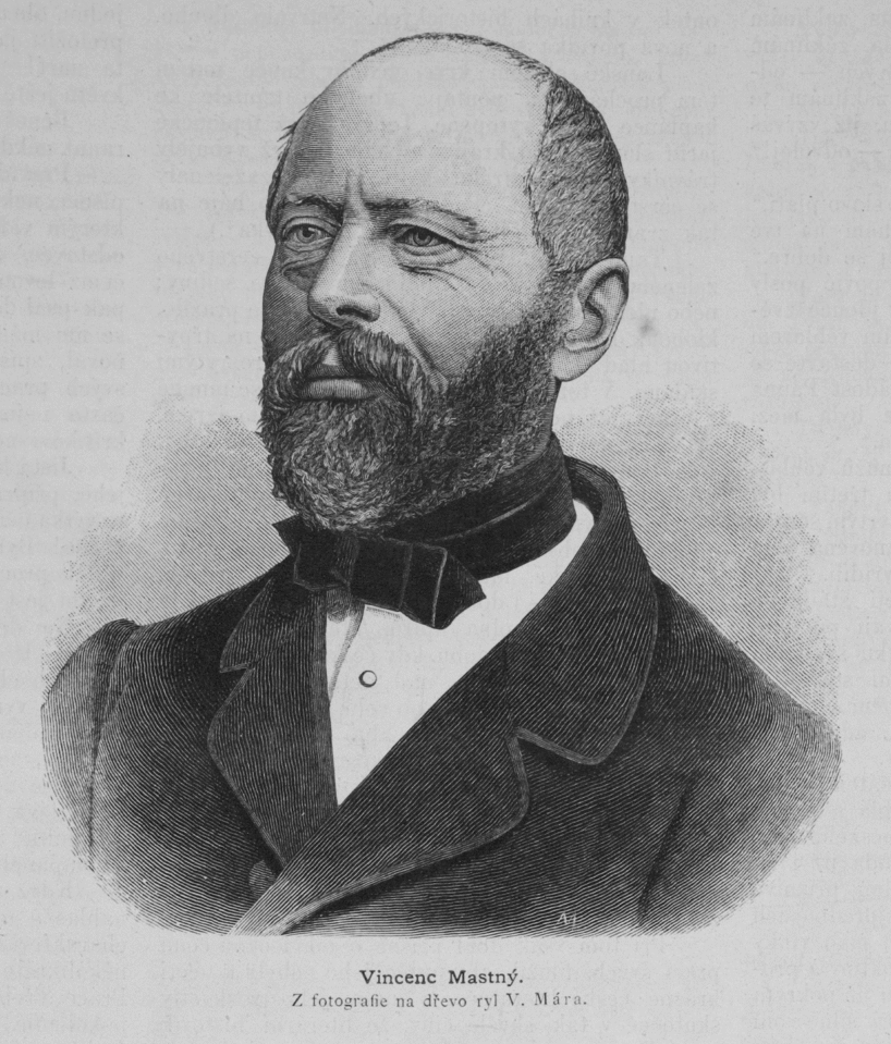 Portrait of Vincenc Mastný (1809-1873), Czech entrepreneur and politician, active mainly in Lomnice nad Popelkou.